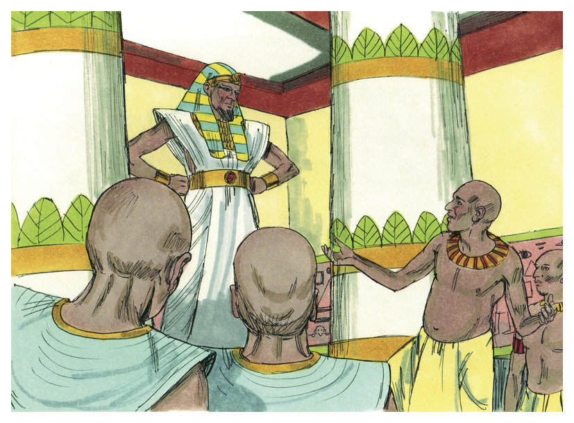 Biblical illustration of Book of Genesis Chapter 41